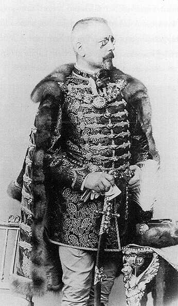 Baron (1918 Count) István Burián de Rajecz (1851–1922), Minister of Foreign Affairs of Austria-Hungary from 1915 till 1916 and in 1918.